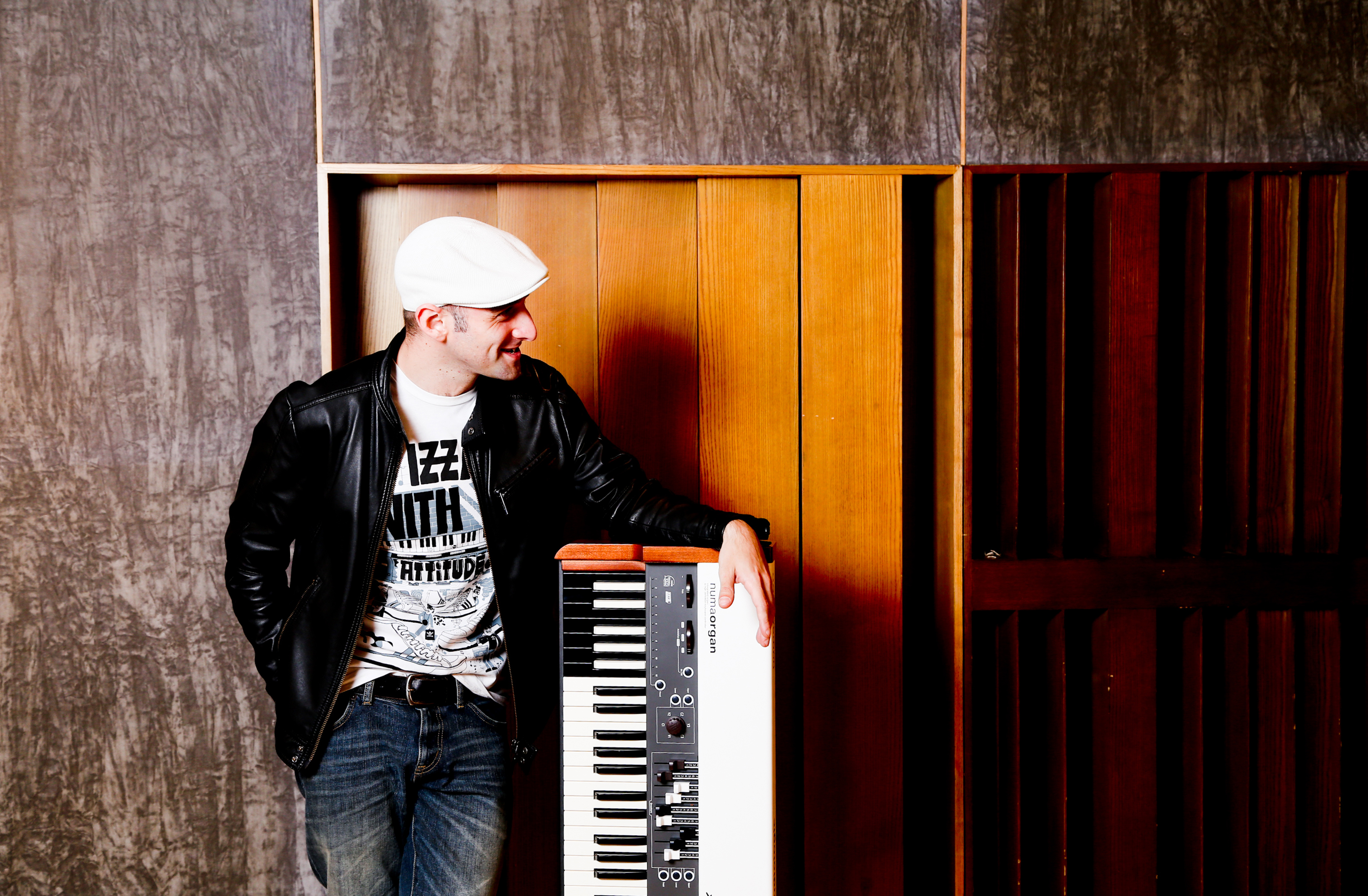 Martin Musaubach posted for Studiologic, Apr 3rd 2013, photo owned by Musaubach